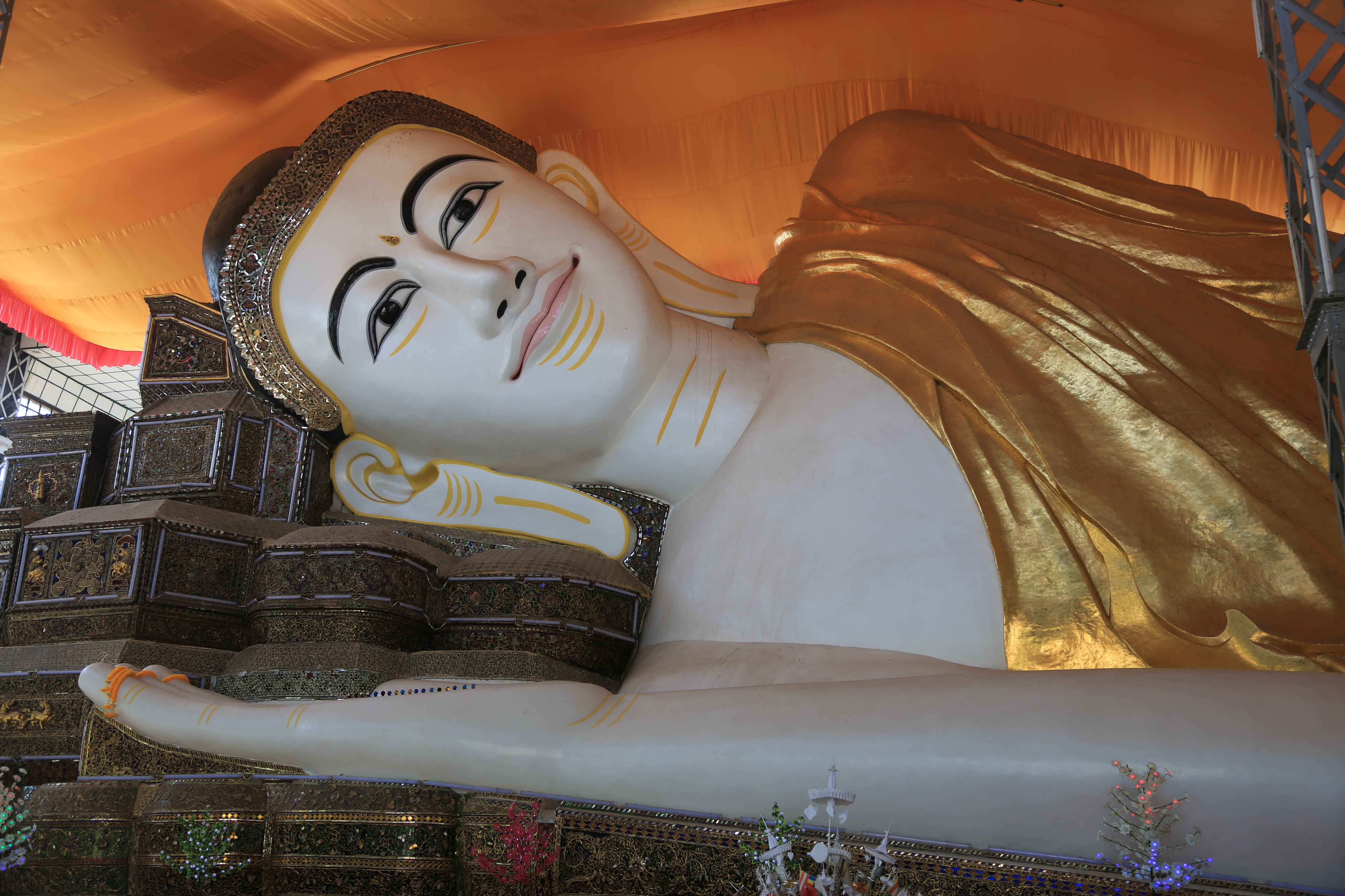 Shwethalyaung Buddha, a reclining Buddha in Bago, Myanmar